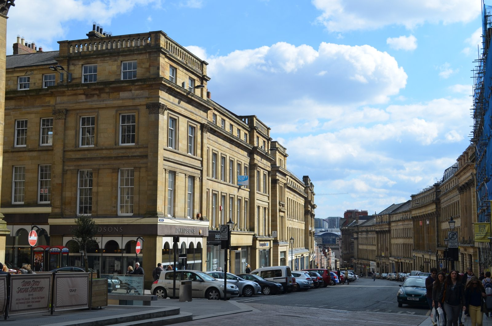 Grey Street in Grainger Town, Newcastle upon Tyne